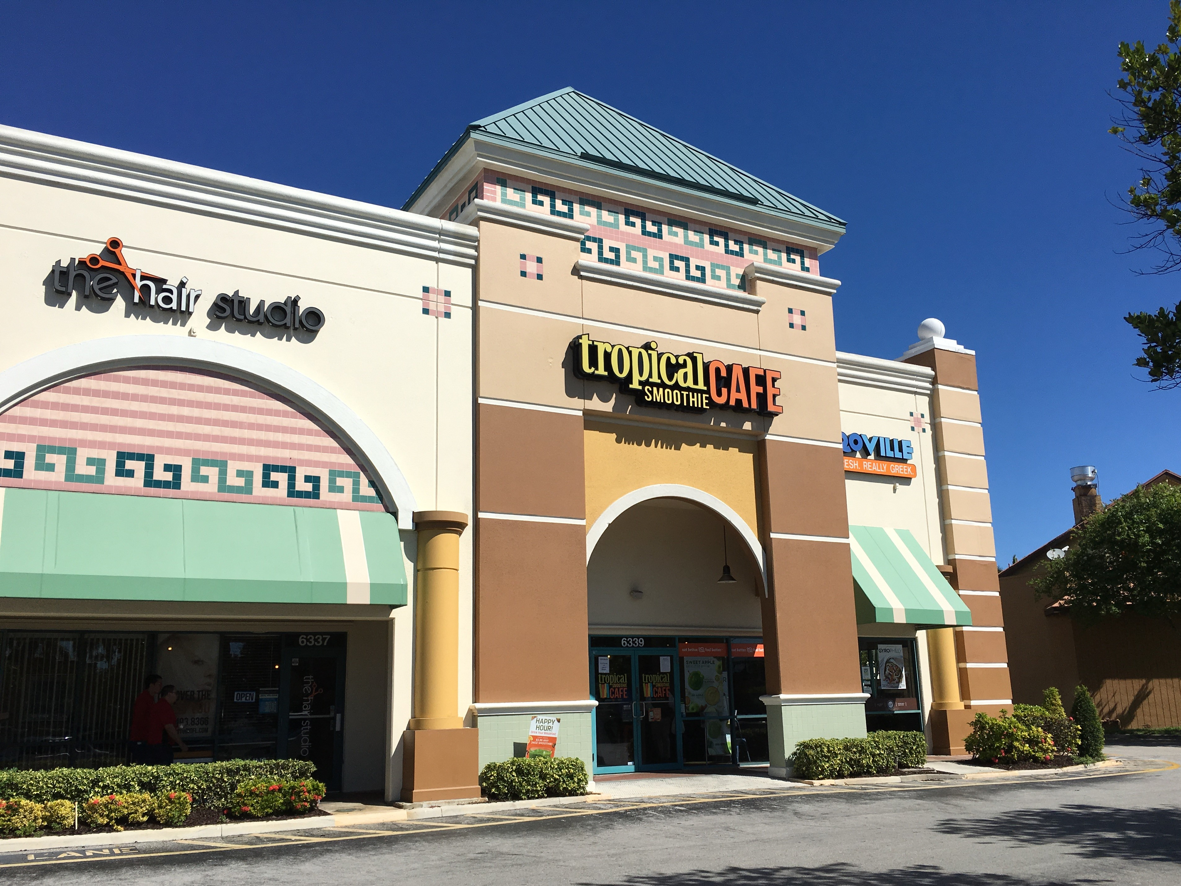 Tropical Smoothie Cafe Ft Lauderdale